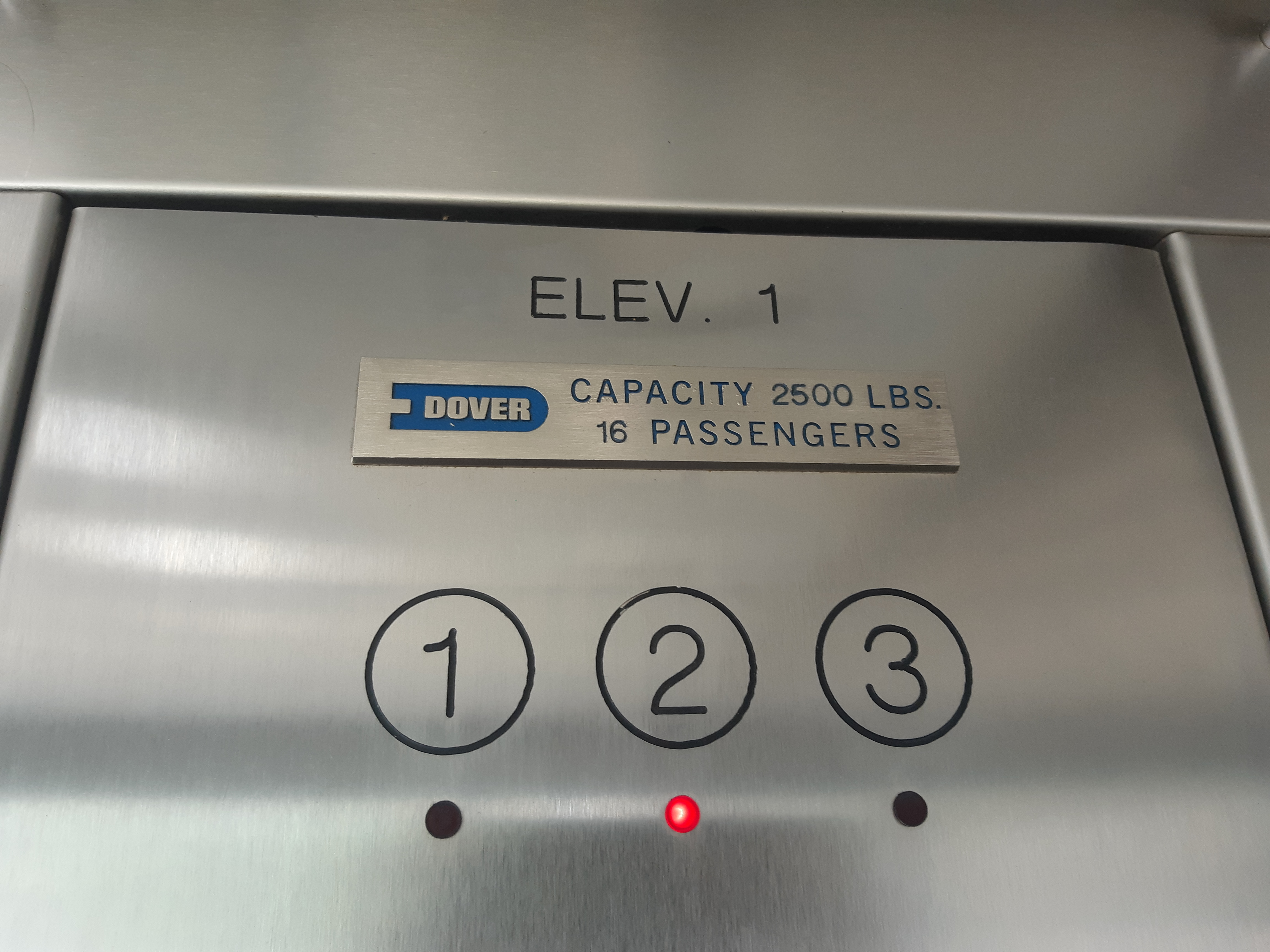 From a Dover elevator with VR fixtures